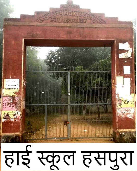 High School, Haspura